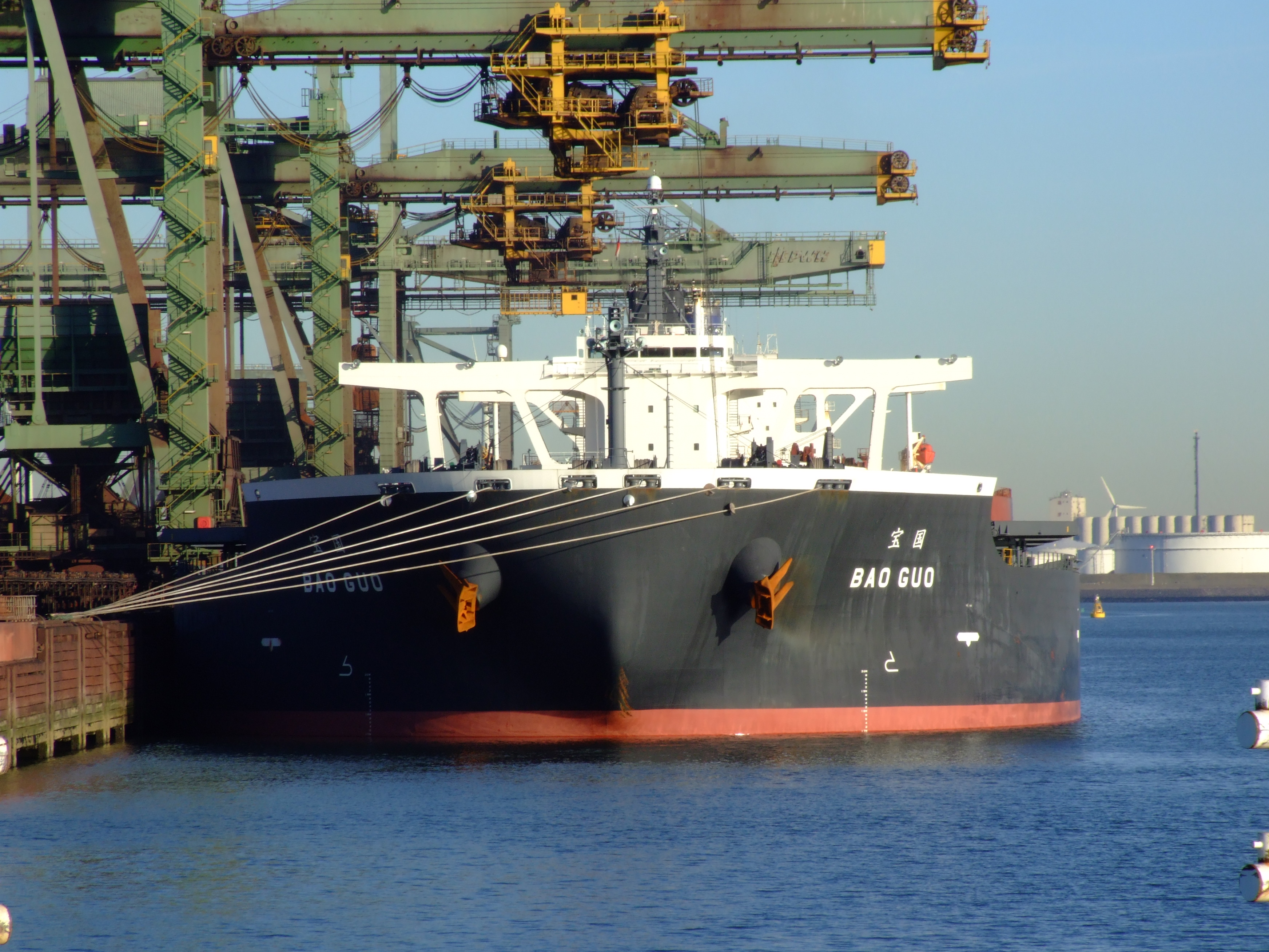 Photographed at or near the Port of Rotterdam, The Netherlands.